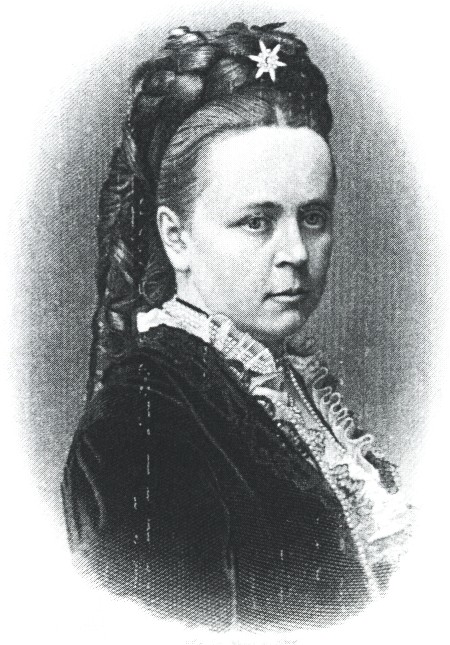 Agnes von Württemberg (1835–1886) auf einem Stich von August Weger (1823–1892).